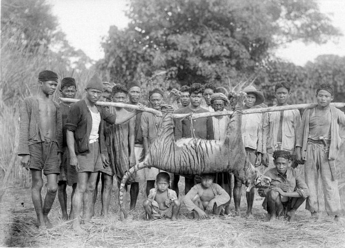 Negative. Although not as important as in India, for many Europeans the hunt in the Dutch East Indies was a part of live in the tropics. For some it was pastime (the 'sunday-hunter'), others made their job of it. On the European agriculture ventures staff, lifestock, and the crops had to be protected agains different wild species. The Indonesian Archipel was home of three tiger subspecies until 1950: the Bali tiger, te Javan tiger, and the Sumatran tiger. Around 1950, the Bali tiger had become extinct, while the Javan tiger was hunted so heavy that it had become fairly rare and now also became extinct. There are only some hundred individuals remaining of the Sumatran tiger. (P. Boomgaard, 2001) Tiger shot in May 1941. Malingping. Bantam. A group of men and children poses with a recent killed tiger in Malingping in Banten, West-Java